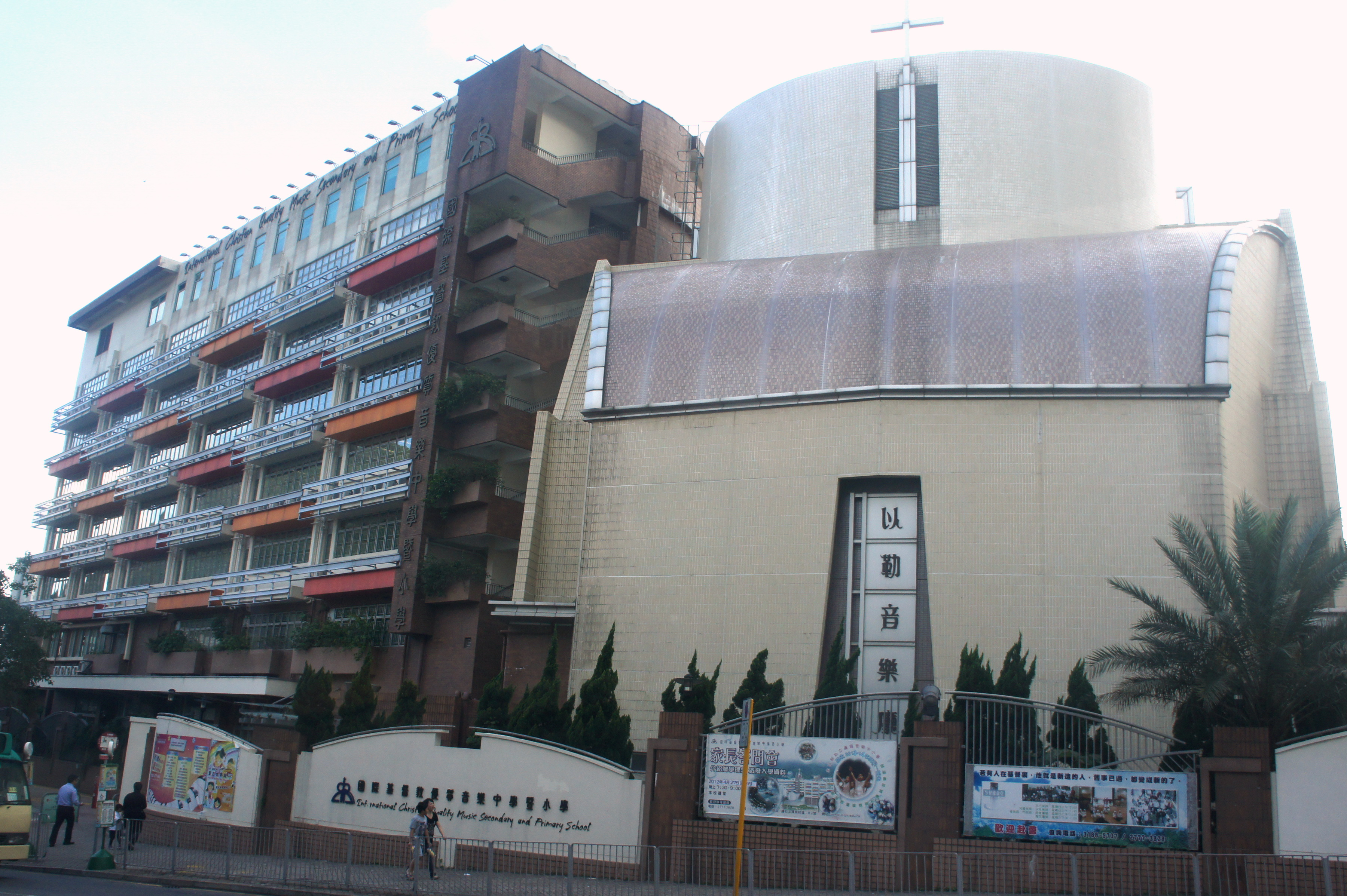 International Christian Quality Music Secondary and Primary School, Tsz Wan Shan, Kowloon, Hong Kong.